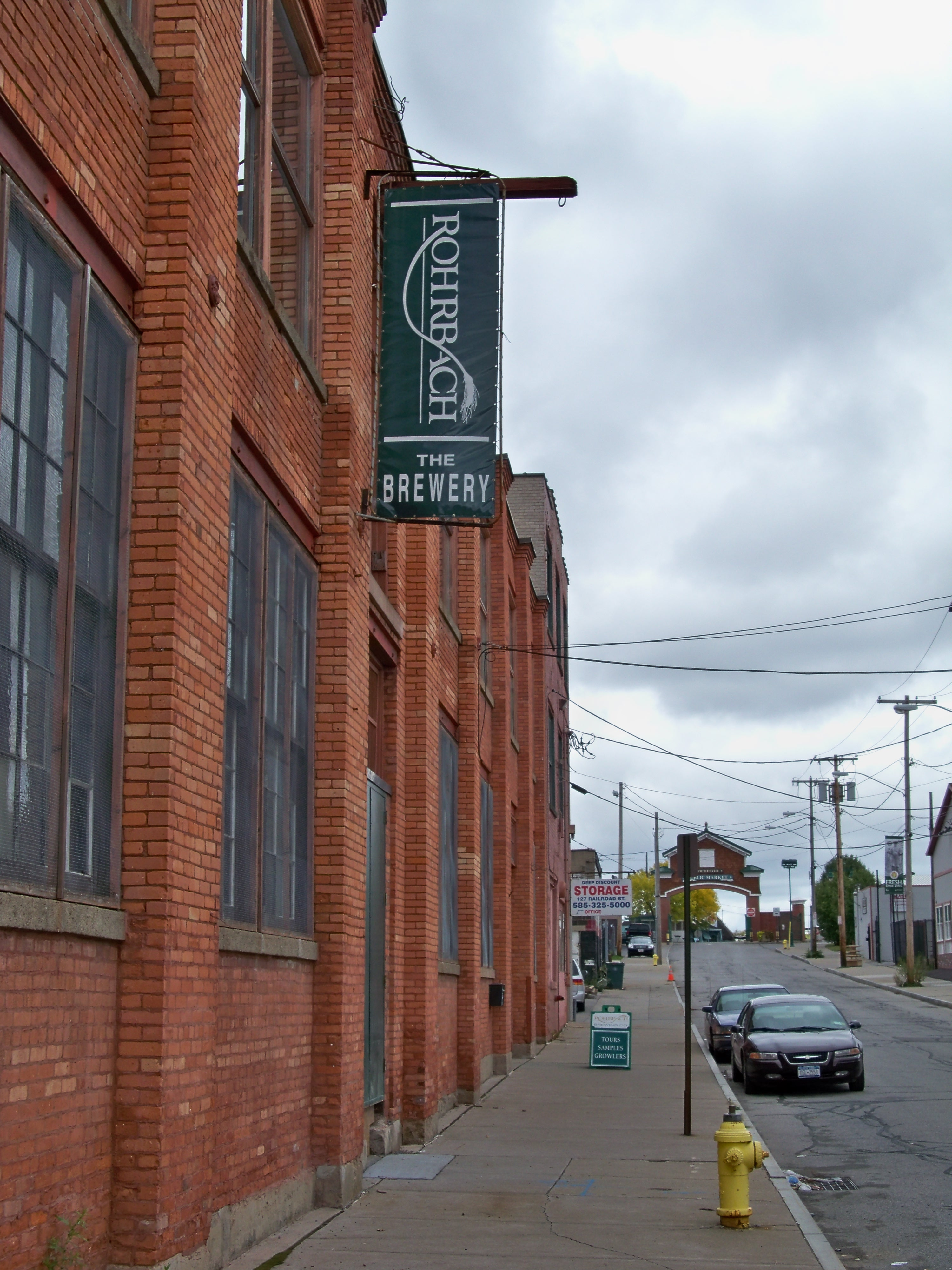 Rohrbach Brewery Logo outside of the Rohrbach Brewery